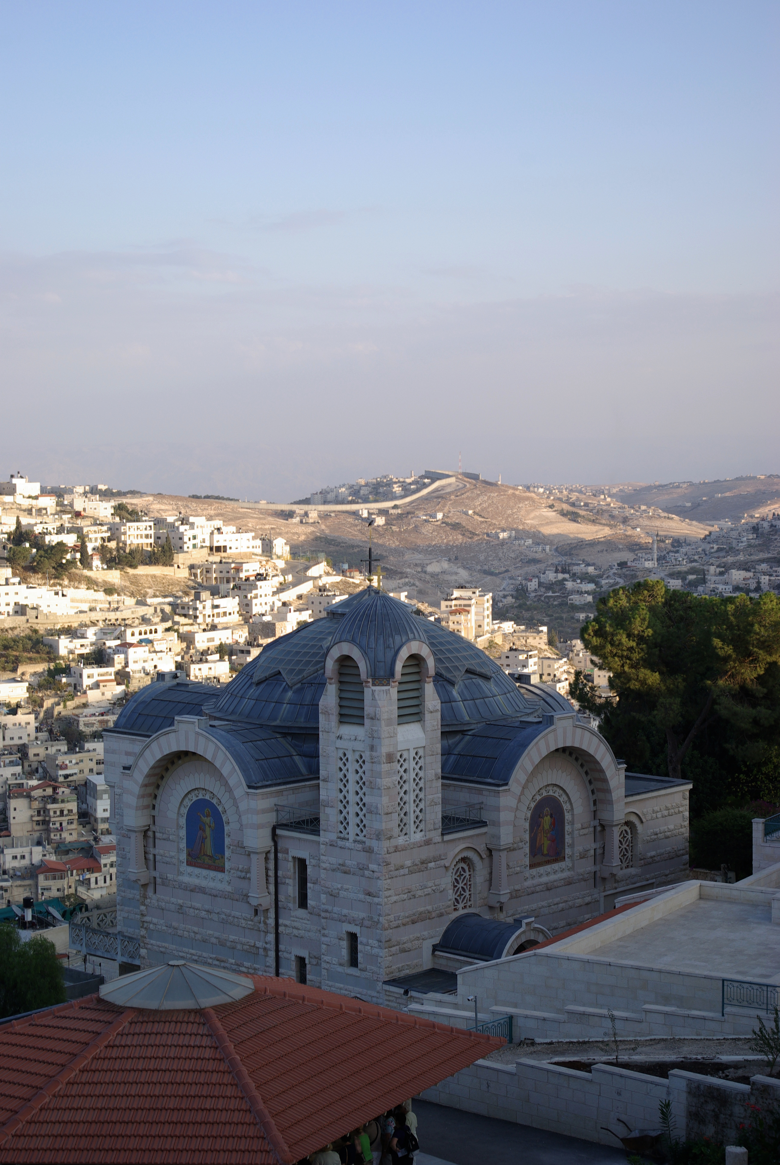 Jerusalem, St. Peter in Gallicantu